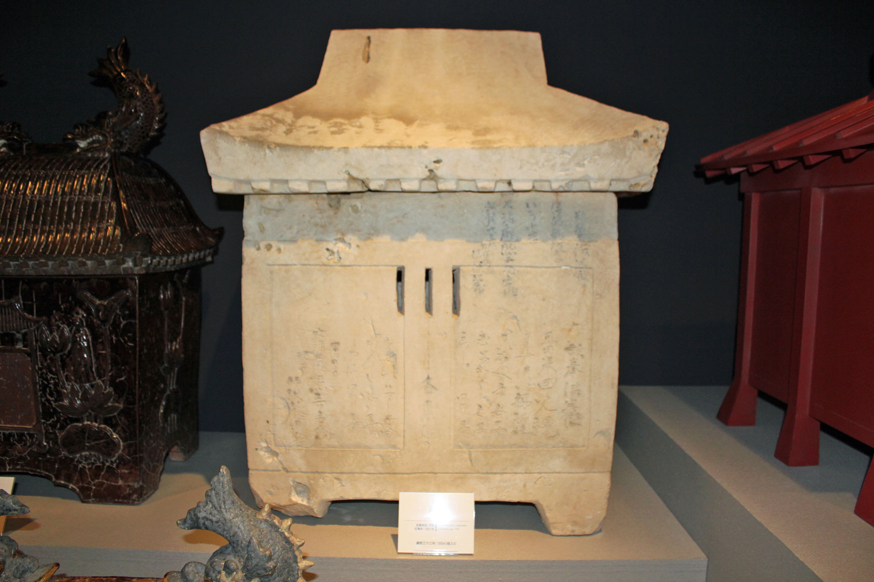 Stone type Urns, 1694